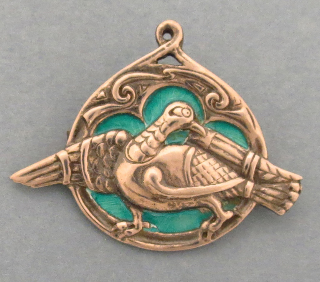 Silver and enamel pendant by Alexander Ritchie of the Isle of Iona.